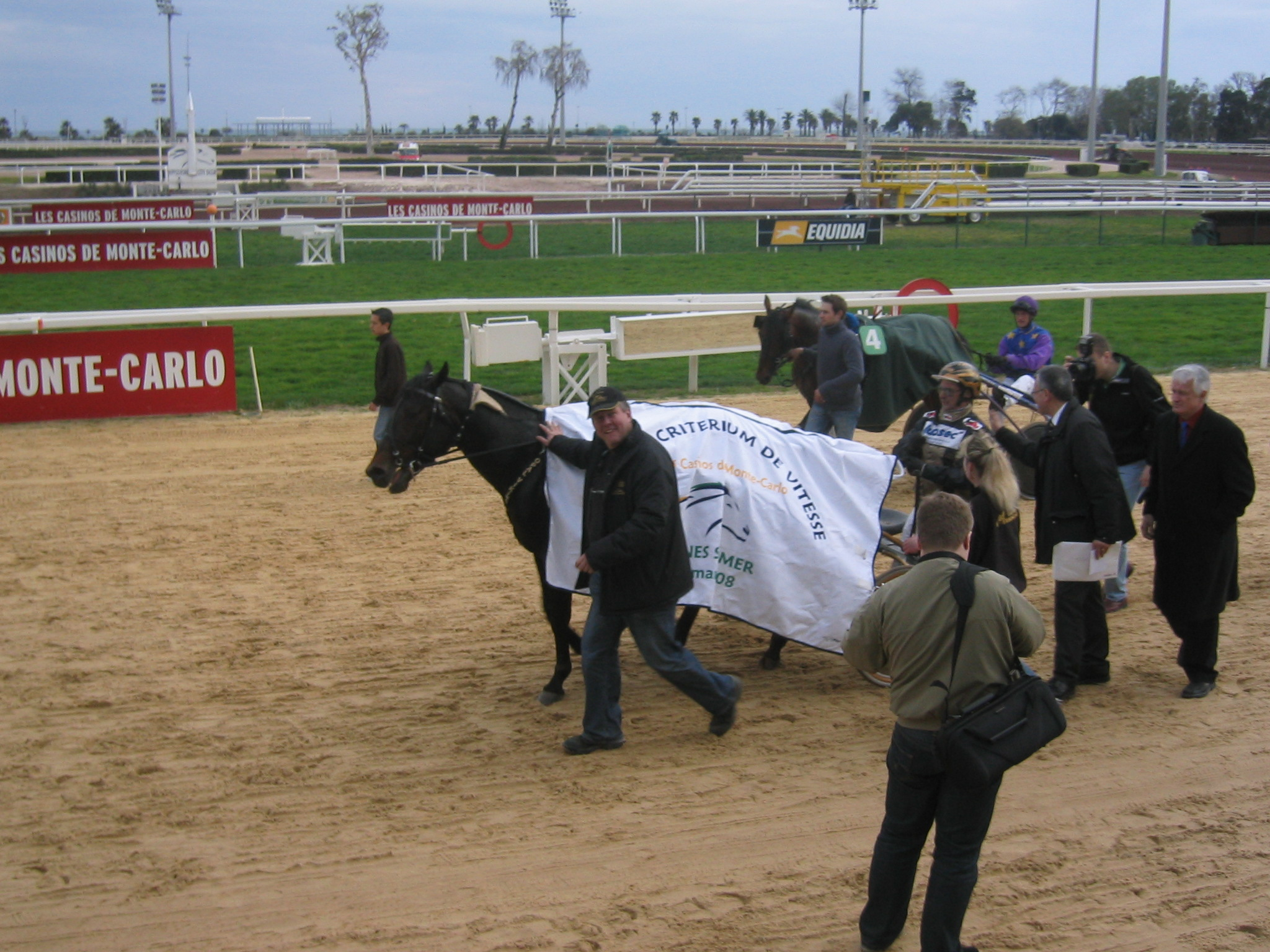 Opal Viking winner of the Critérium de vitesse de Cagnes-sur-Mer 2008. Nils Enqvist his trainer is on the left and Jorma Kontio on sulky